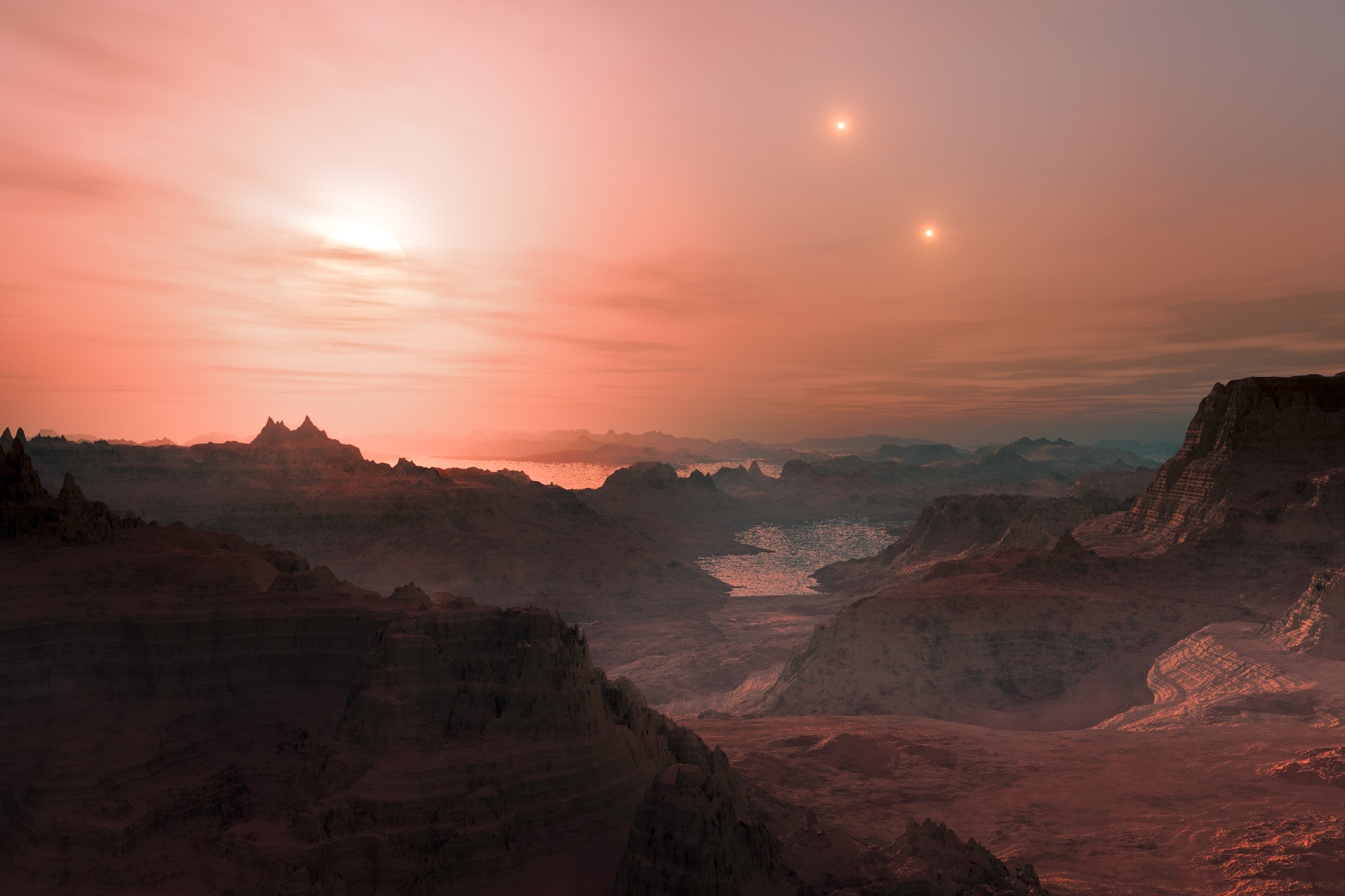 This artist’s impression shows a sunset seen from the super-Earth Gliese 667 Cc. The brightest star in the sky is the red dwarf Gliese 667 C, which is part of a triple star system. The other two more distant stars, Gliese 667 A and B appear in the sky also to the right. Astronomers have estimated that there are tens of billions of such rocky worlds orbiting faint red dwarf stars in the Milky Way alone.